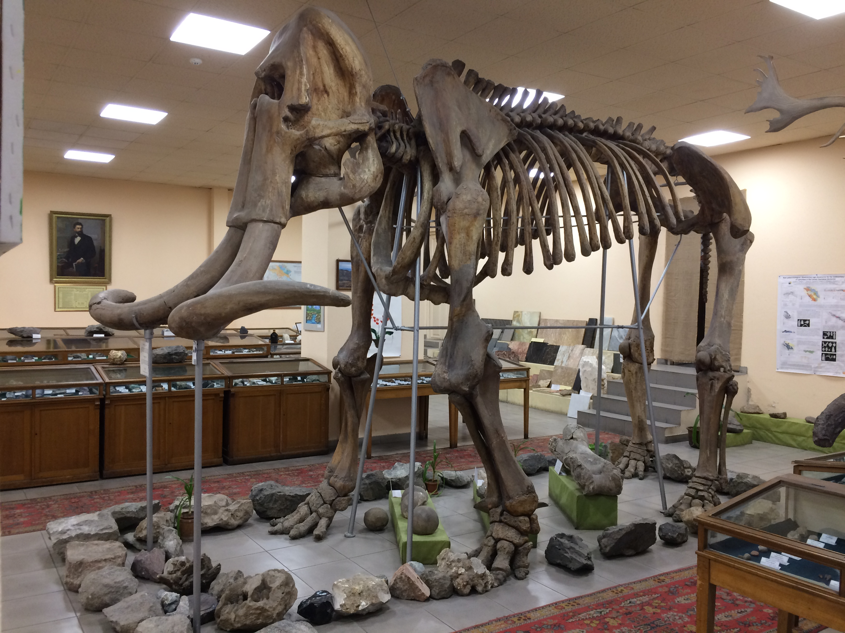 Geological Museum after H. Karapetyan IGS NAS RA